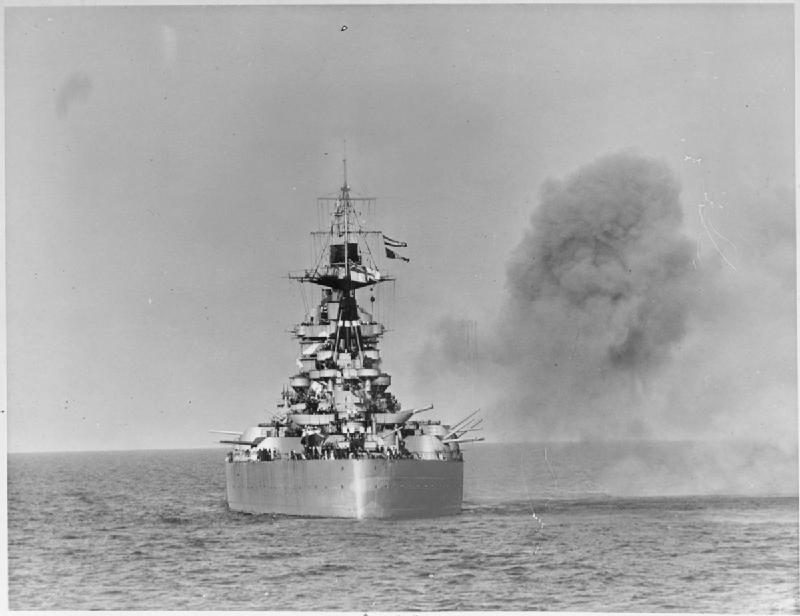 HMS RODNEY adds her weight of shells to the Navy's pounding of enemy positions along the Caen coast in support of the D-Day landings. Smoke is hanging over the starboard side (photograph taken from the frigate HMS HOLMES).